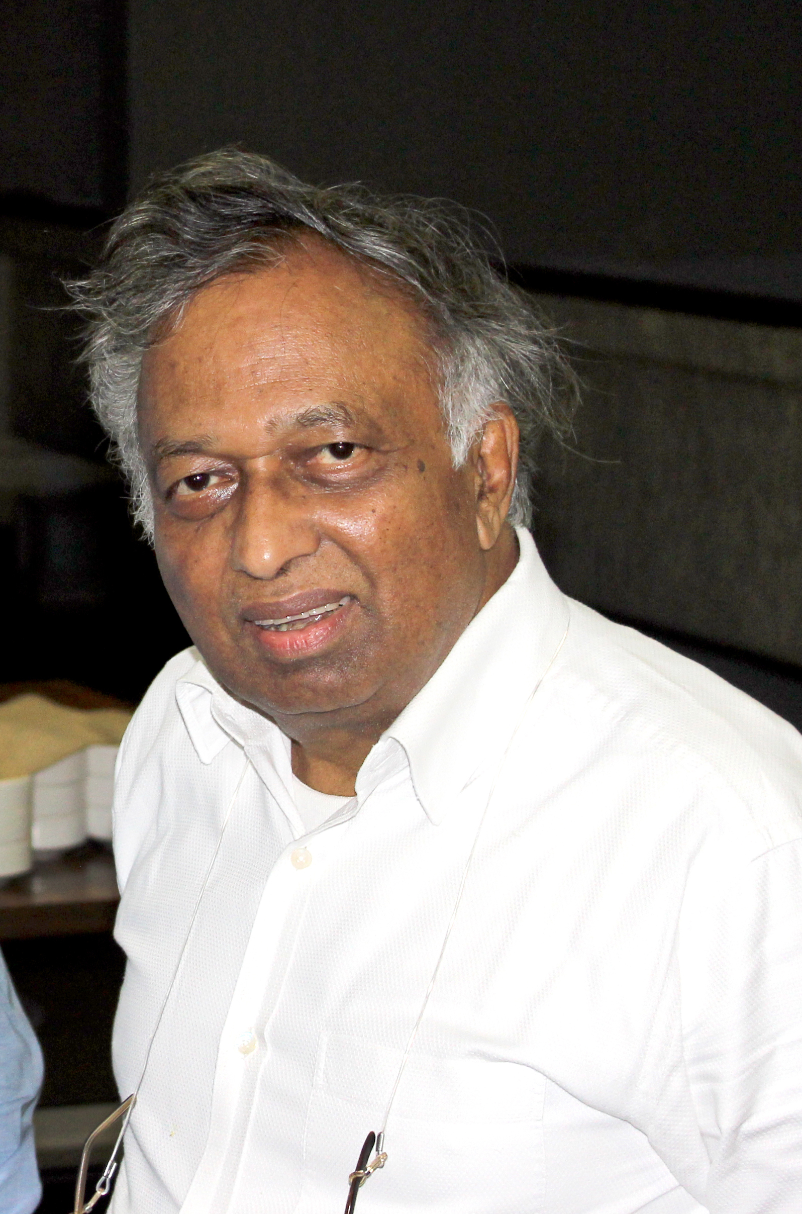 During Executive Council Meeting of Wikimedia India at IIT Bombay